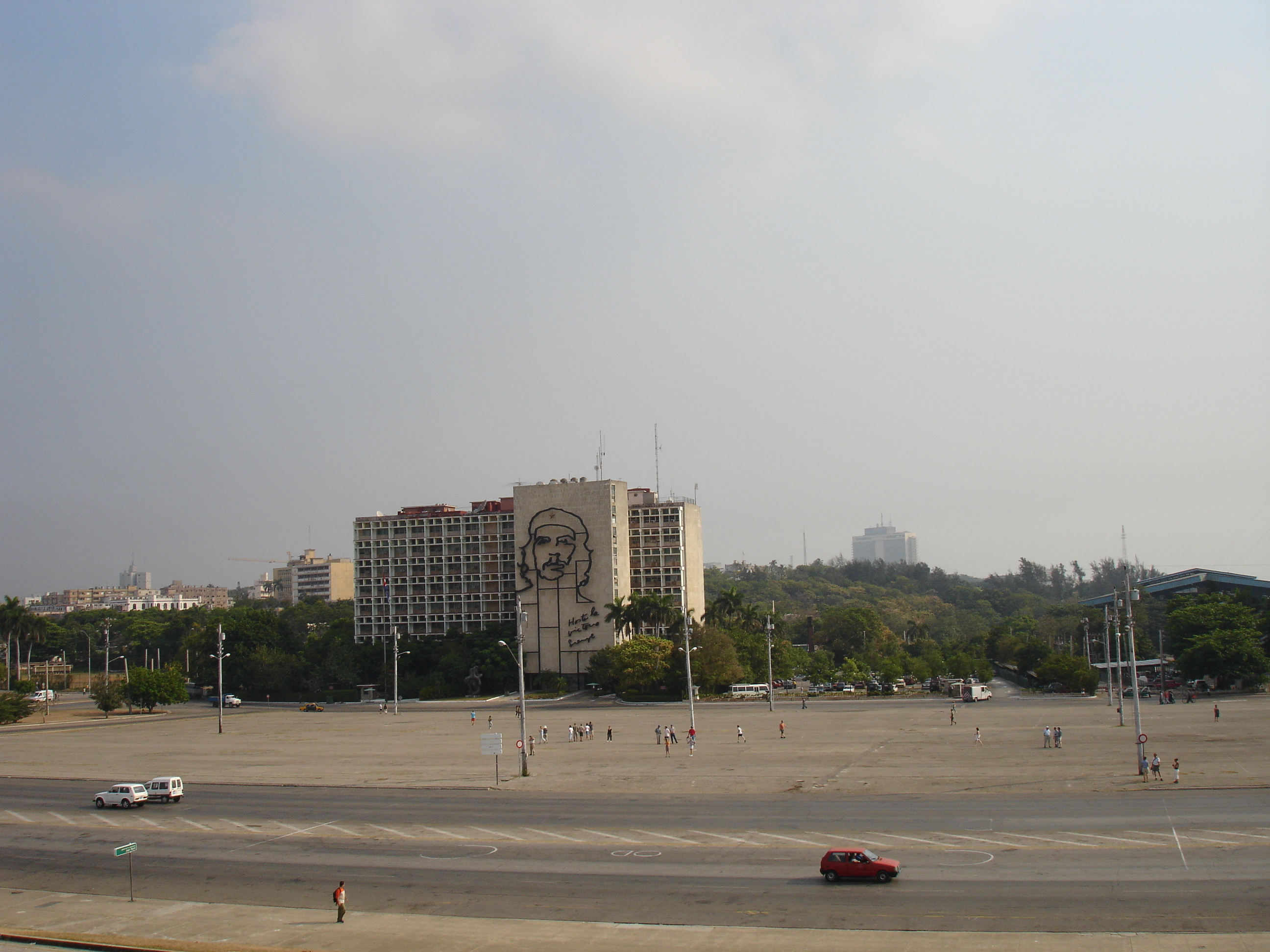 This is a picture of the Plaza of the Revolution, with the Ministry of the Interior Building bordering it. In the distance, you can see the Hotel Habana Libre. Image taken by me, takethemud, in Havana, Cuba, May 2006.